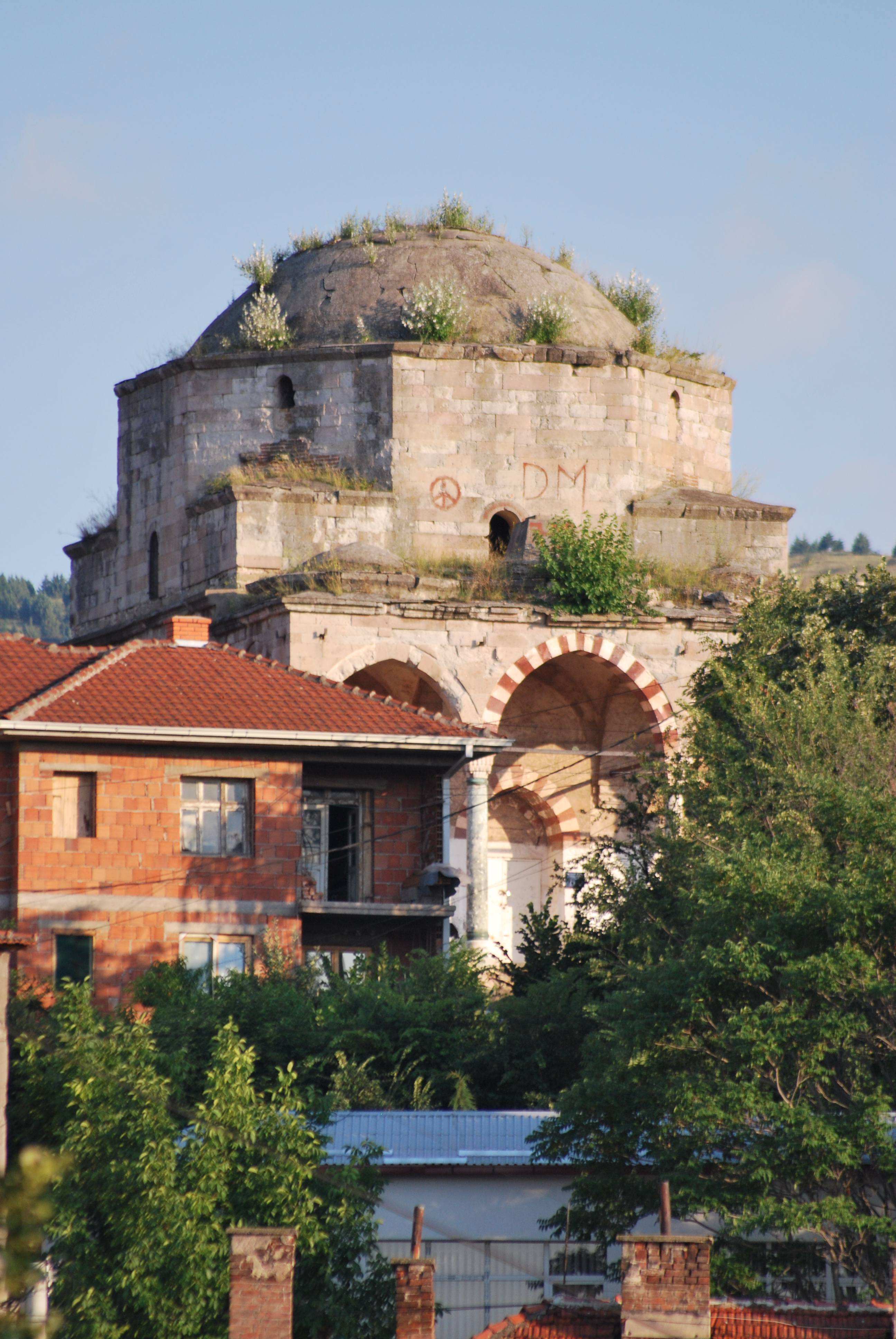 Štip, Macedonia